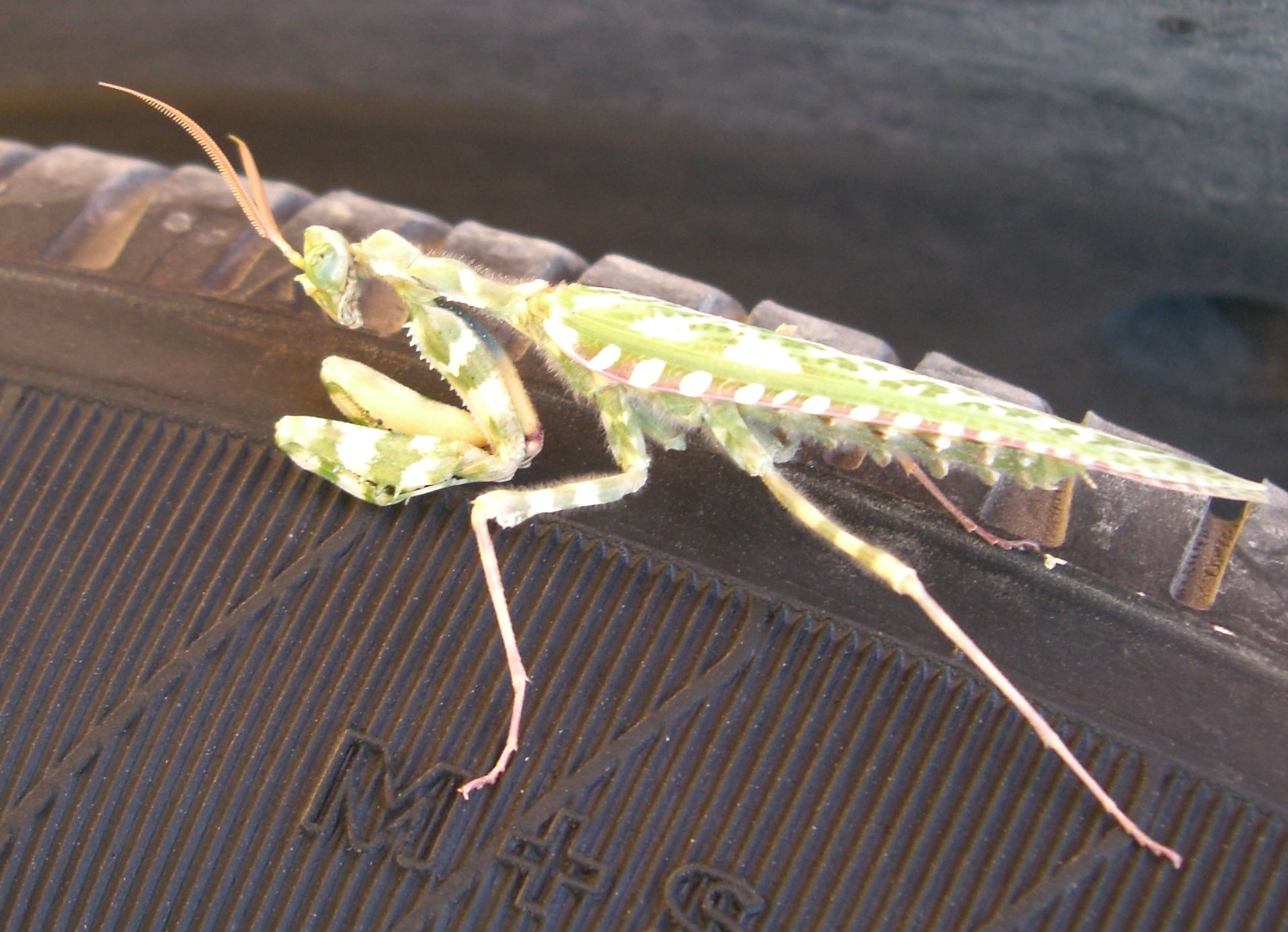 Blepharopsis mendica (devil flower mantis), On a tire of a car in Wadi Akrabim, Negev Desert, Israel